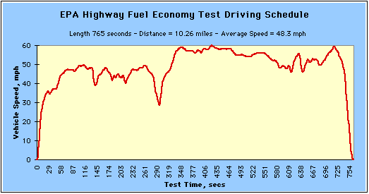 The Highway Fuel Economy Driving Schedule (HWFET) is a chassis dynamometer driving schedule defined in the US Code of Federal Regulations, 40 CFR part 600, App. I, and represents highway driving conditions under 60 mph. The cycle lasts 765 seconds covering 10.26 mi (16.45 km) with an average speed of 48.3 mph (77.7 km/h). See also: US 40 CFR 600, App. I